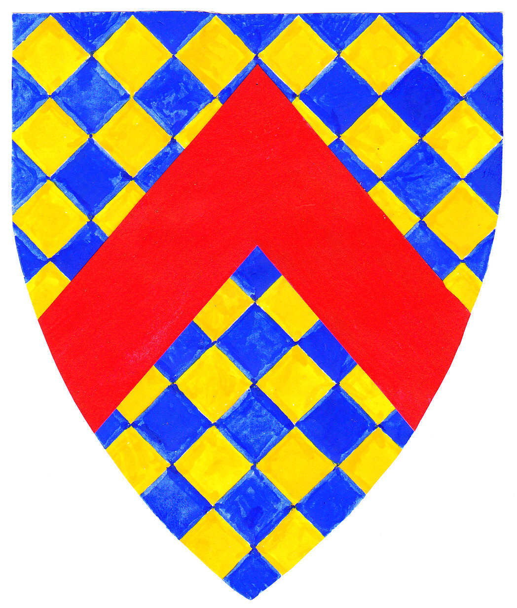 Armorials "lozengy Or and azure, a chevron gules", known as "Gorges modern", as adopted by Theobald Russell de Gorges in 1347 following a challenge made by John de Warbleton brought before a Court of Honour held at the Siege of Calais presided over by Henry of Grosmont, Earl of Lancaster. It appears on the Denys funerary brass in the Parish Church of Saint Mary the Virgin, Olveston, Gloucestershire, England, UK.